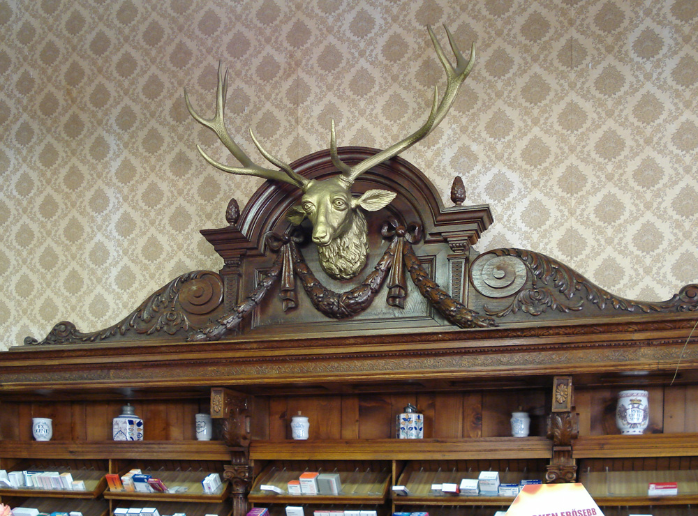 Deer sculpture in the Golden deer pharmacy's inner space, Miskolc, Hungary